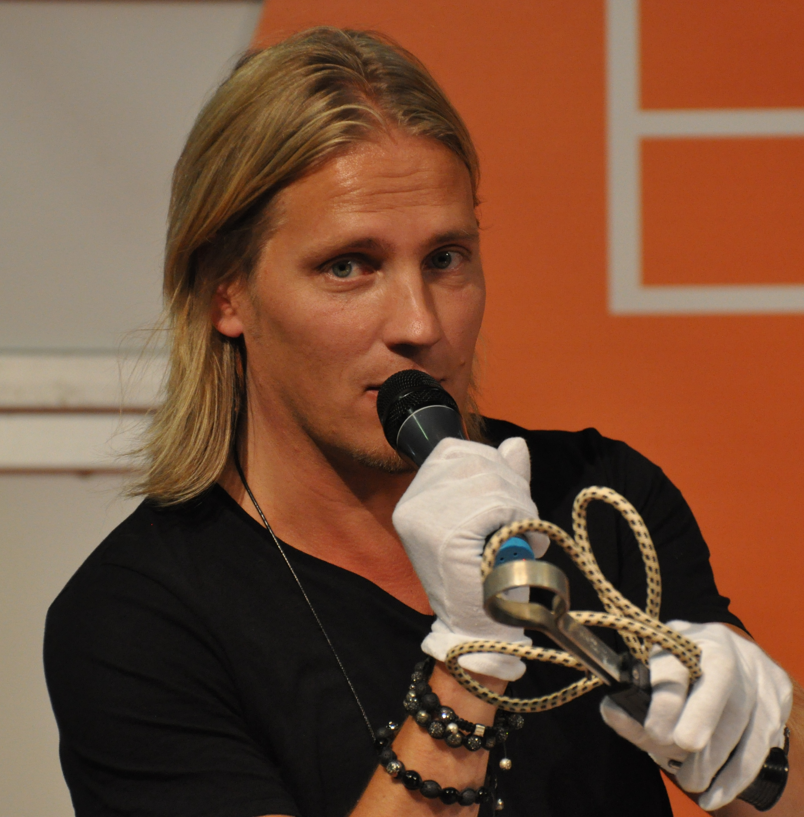 Finnish radio personality Sami Kuronen at the Turku Fair, 2011.